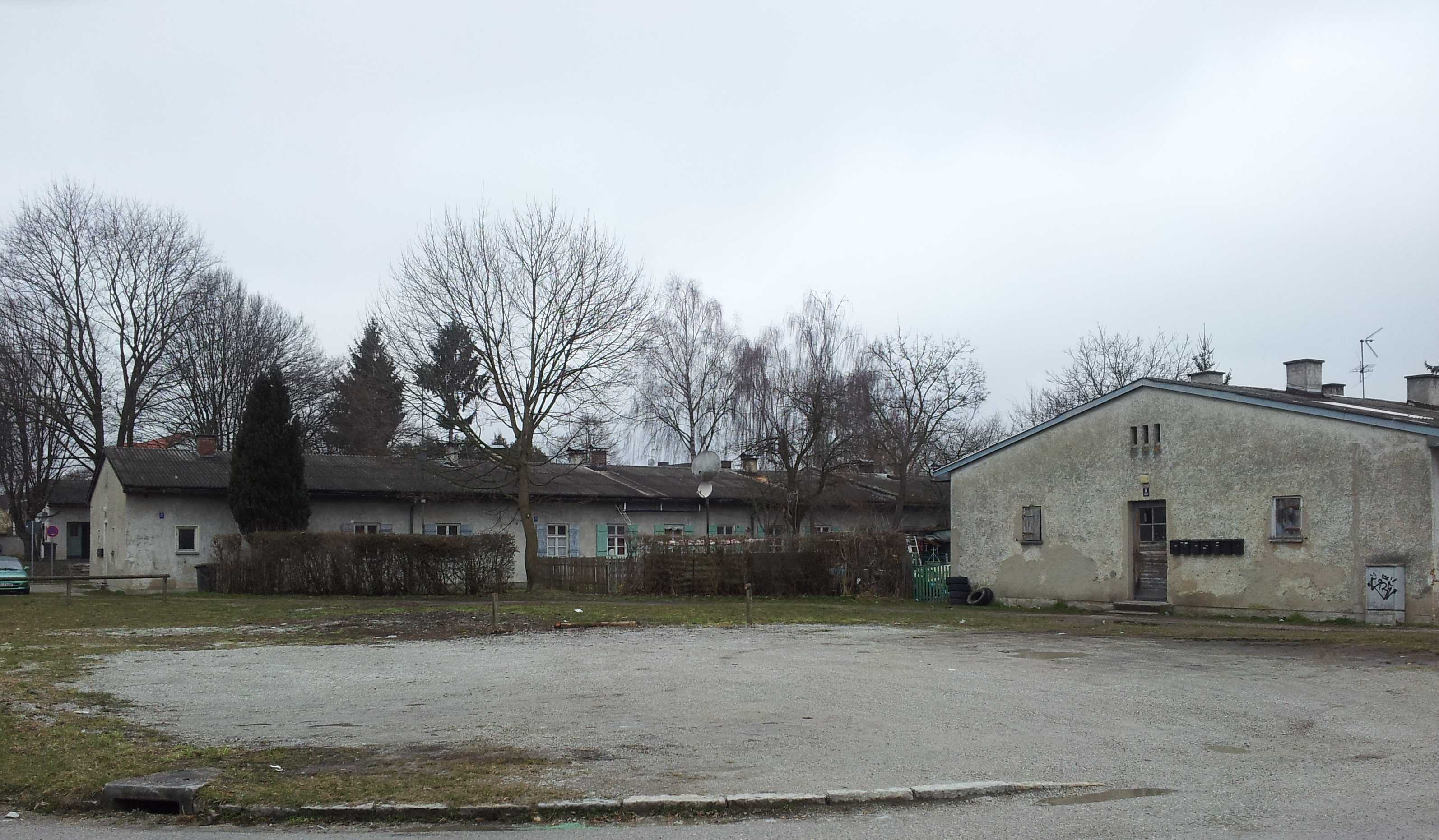 Baracks 1 and 3 of the guard of Stalag VIIA in Mooseburg in 2013